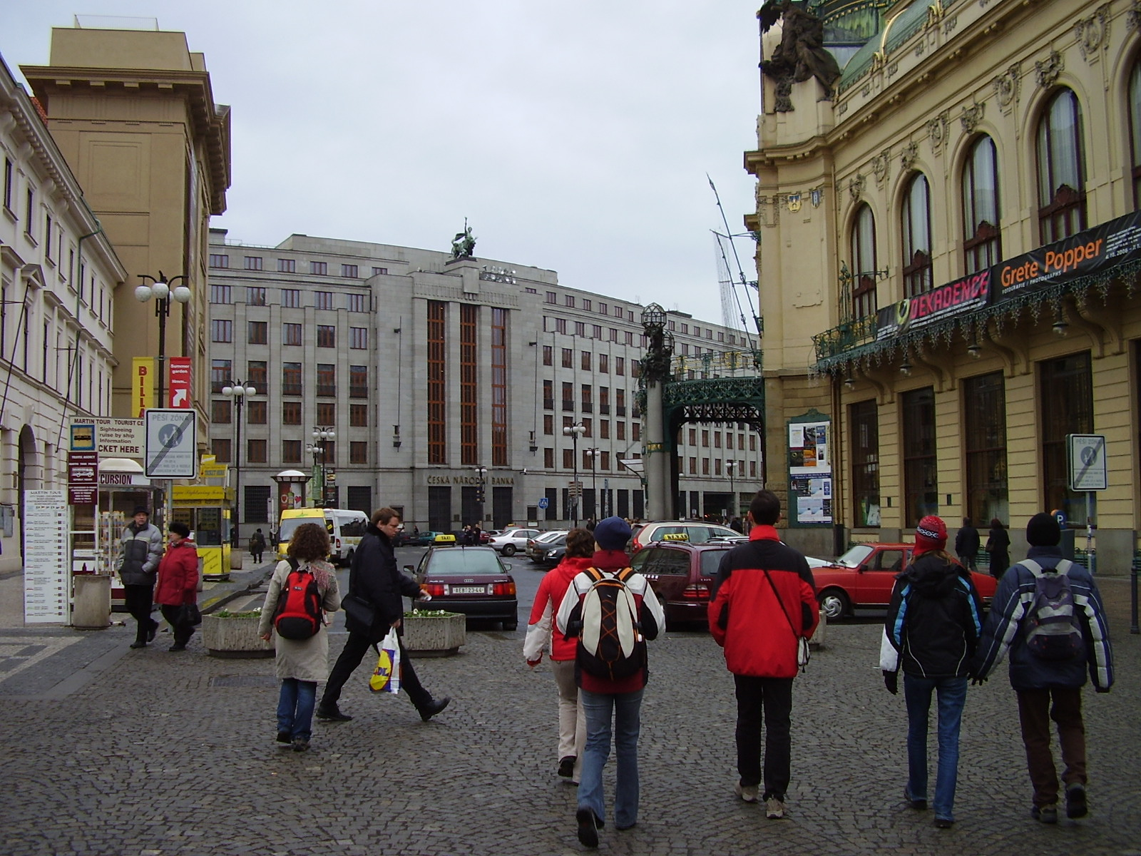 Prague november 2006